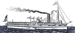 A drawing of the Palace Steamer, Niagara. The Niagara was built in 1846, and caught fire and sank in Lake Michigan off Belgium, Wisconsin, in 1856. The wreck site is a Registered Historic Place.